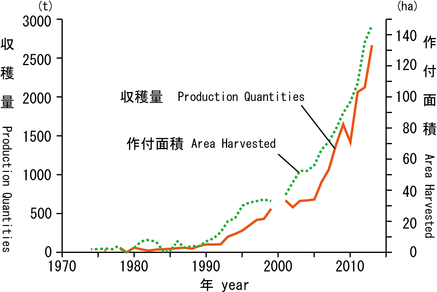 These graphs show production quantity and area harvested of tomatoes in Japan from 1974 to 2013. Data source is e-Stat, powered by Statistics Bureau, Ministry of Internal Affairs and Communications, Japan. Data in 2000 is missing.